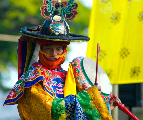 Taken by Photographer Joe Philipson at the Honolulu Academy of Arts. This photo shows one Monk performing the sacred Cham Dance.